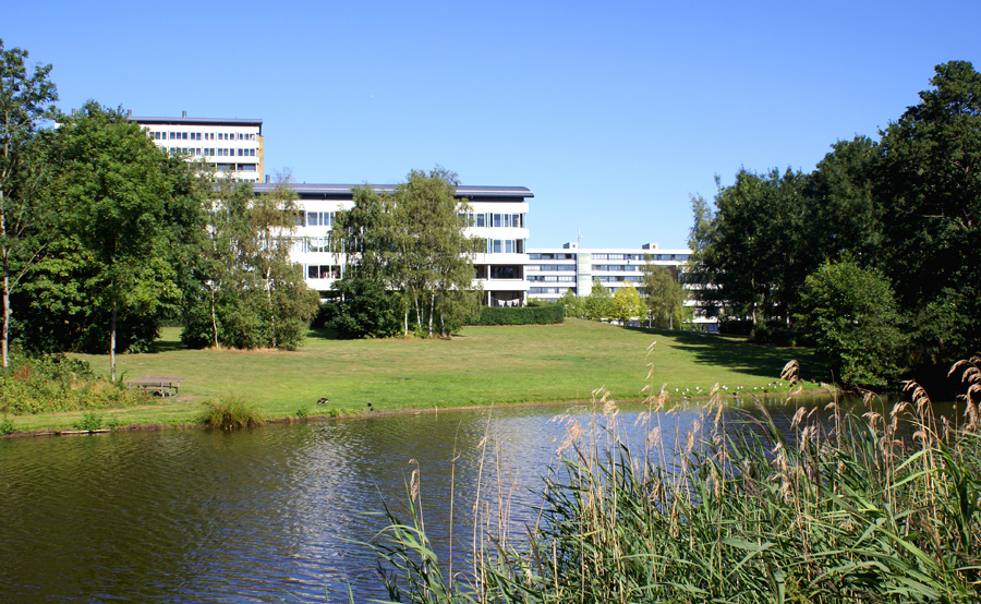 Vollsmose, Odense Kommune, Denmark